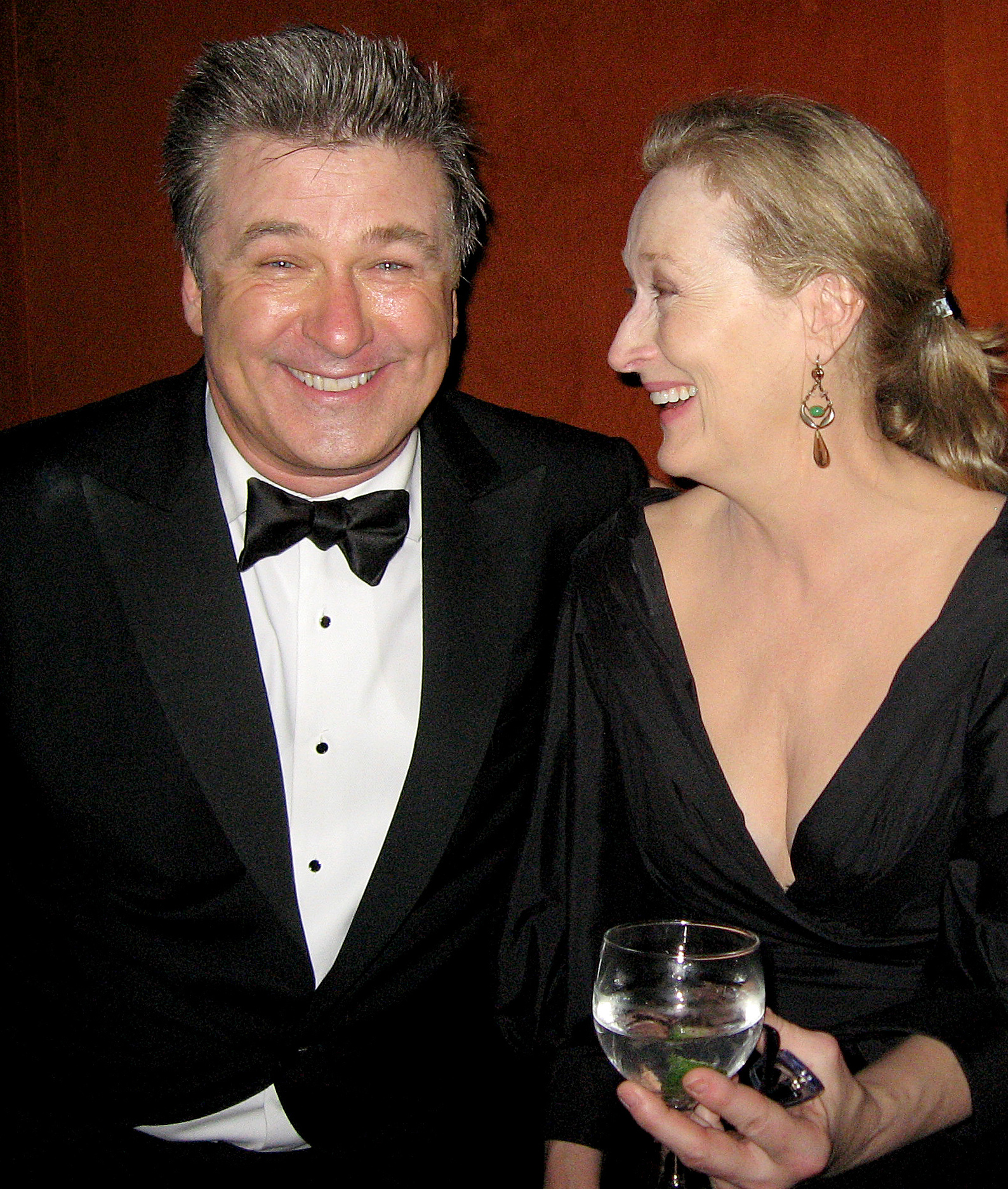 Alec Baldwin, Meryl Streep, Josh Wood attend 15th Annual Screen Actors Guild Awards after party held at Shrine Auditorium and Expo Hall, Los Angeles, California